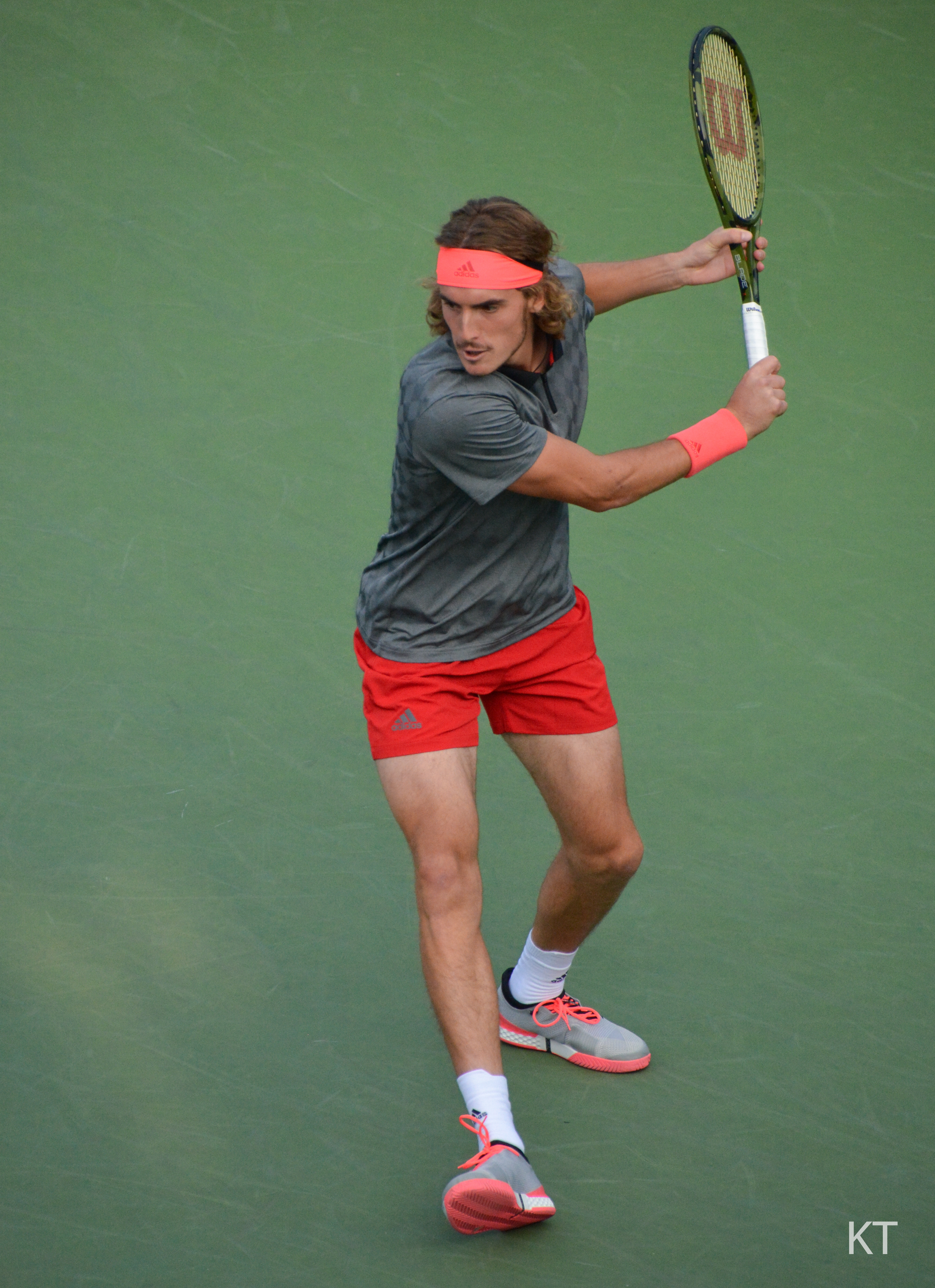 Stefanos Tsitsipas v Tommy Robredo. Day 1 of US Open 2018.